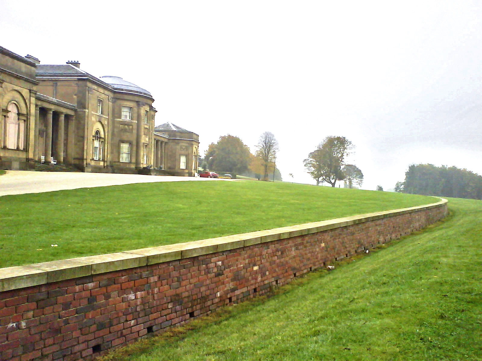 Ha-Ha in front of Heaton Hall, Heaton Park, Manchester